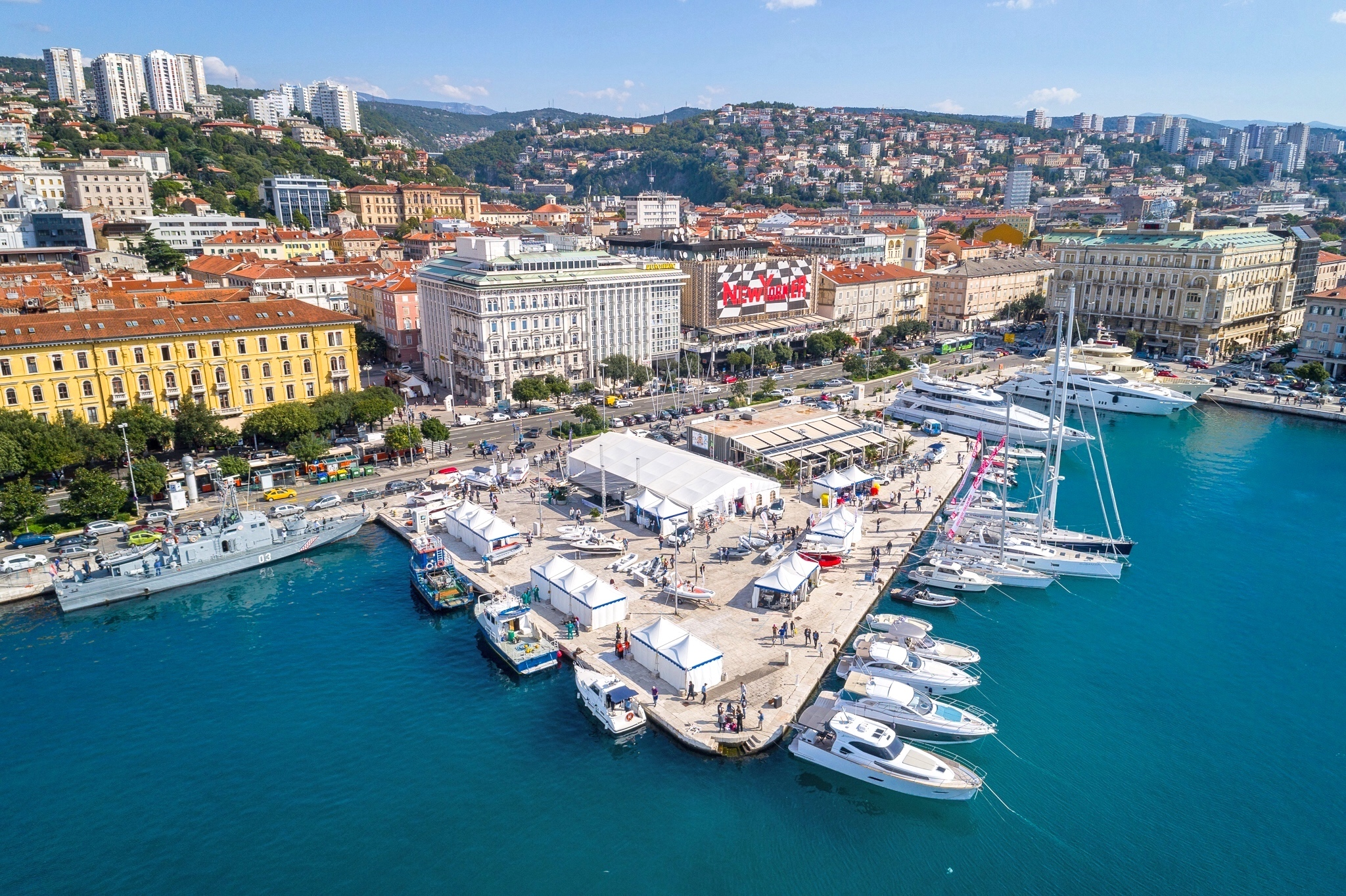 Rijeka Riva